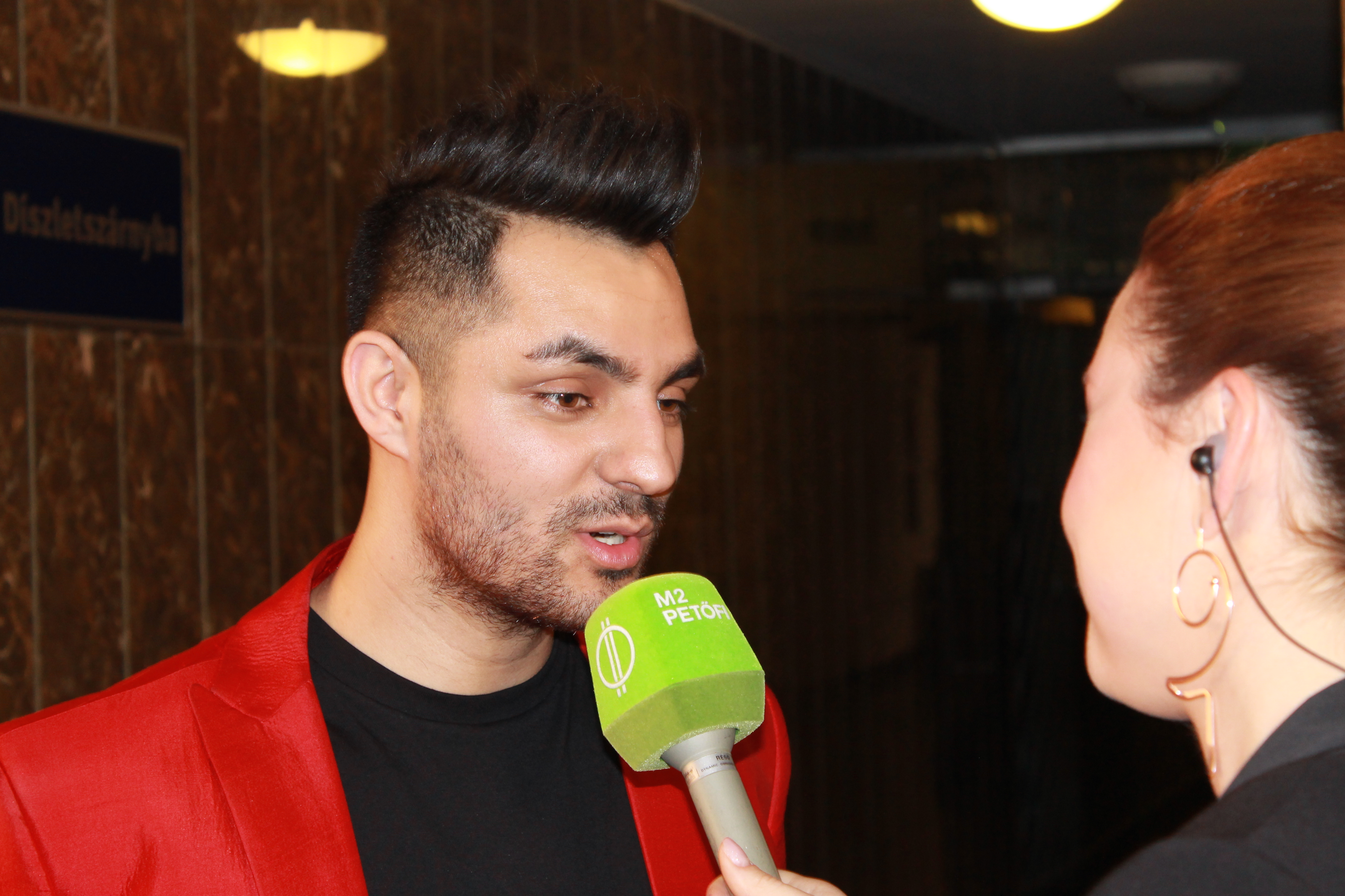 A Dal 2016 finalist, Gergő Oláh answers to Hungarian public channel M2 Petőfi TV